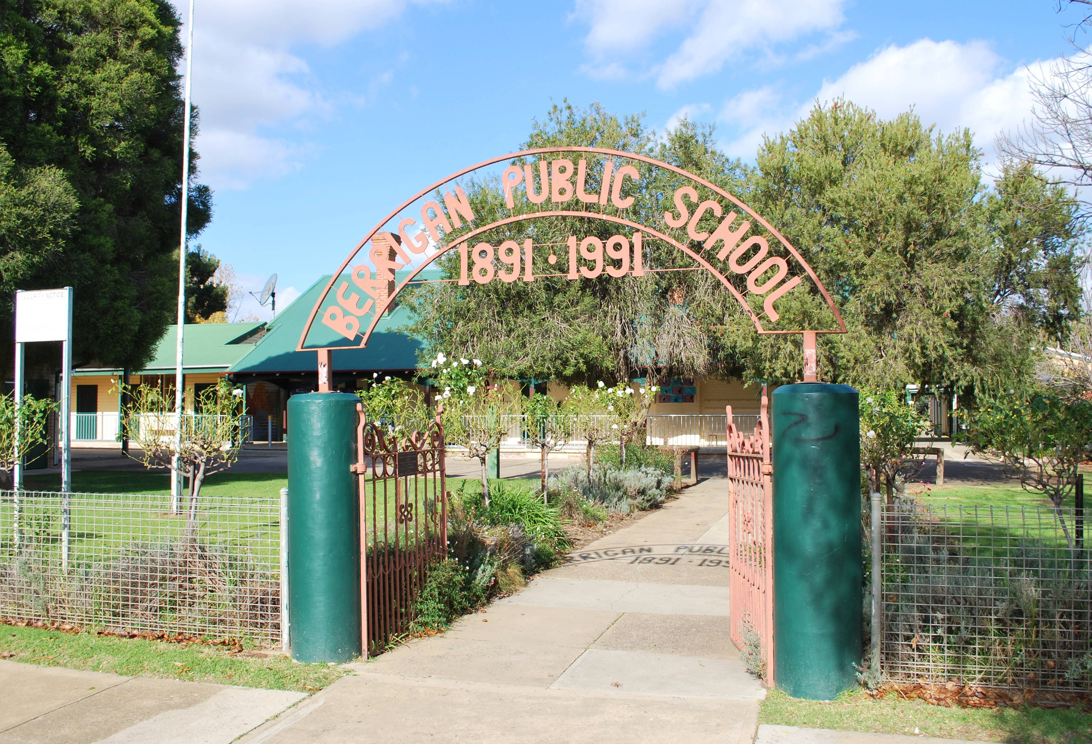 Gate at Berrigan Public School at Berrigan, New South Wales